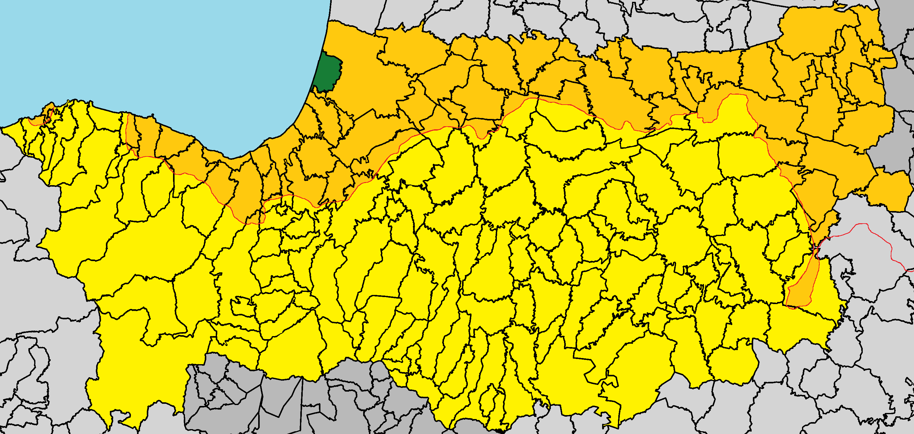 Syrianochori in Nicosia District (de jure).